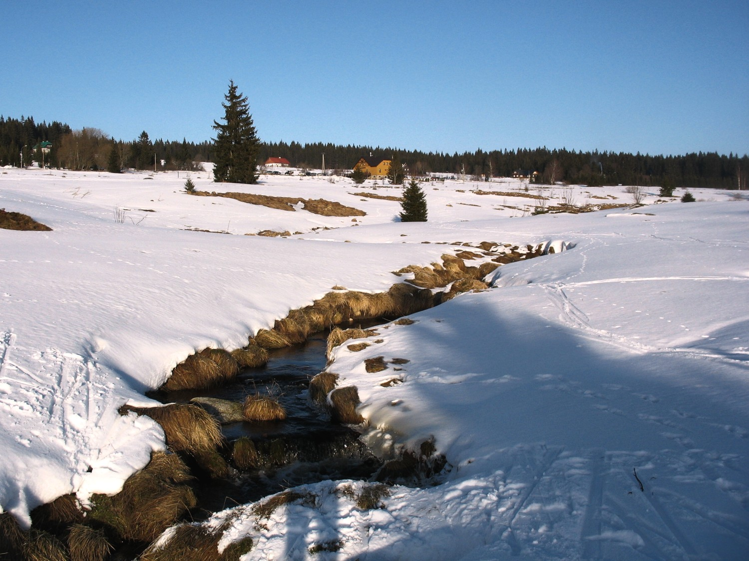 The brook Filipohuťský potok in the Šumava Mts., Czech republic